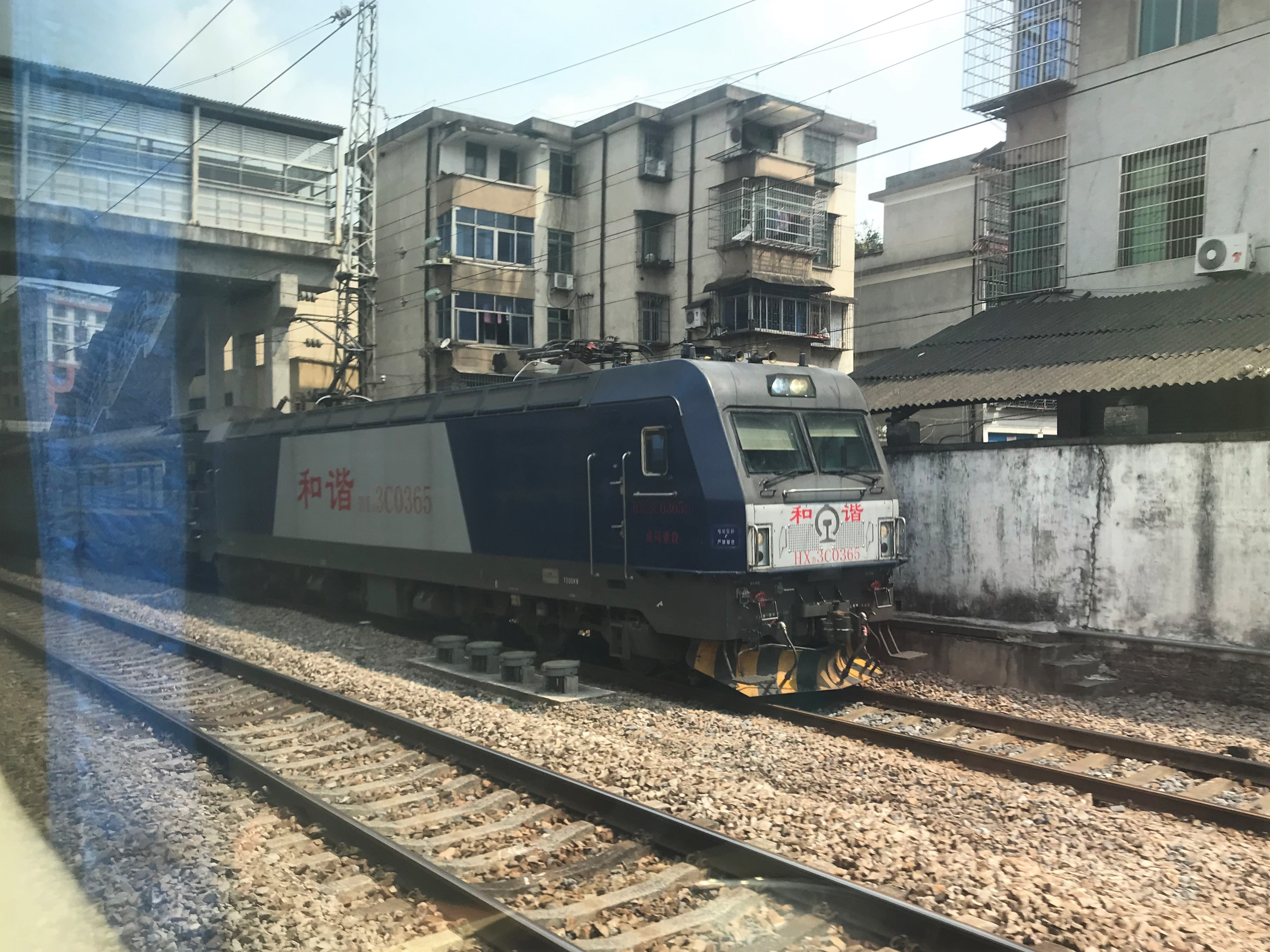 K578 from Chengdudong to Changsha